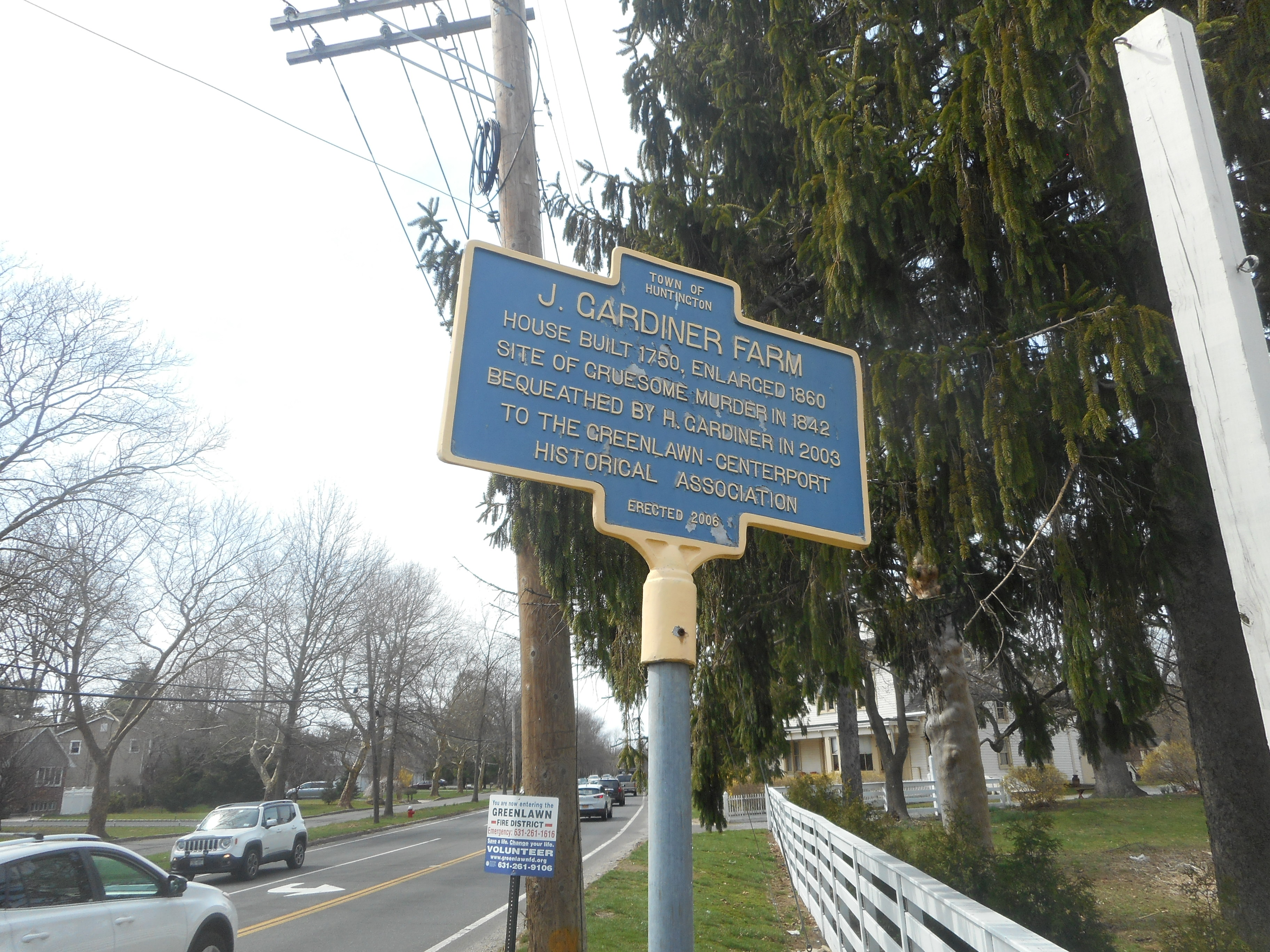 Historical marker in front of the NRHP-listed Henry Smith Farmstead, now know as the John Gardiner Farm at 900 Park Avenue (Suffolk CR 35), at the corner of Little Plains Road in Huntington Station, New York, although it's actually closer to Greenlawn, New York. The marker calls it the "J. Gardiner Farm," was erected in 2006 by the Town of Huntington Historical Society, and has slightly more detail than the Wikipedia article, although I'm sure somebody there might use it to expand that article.